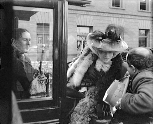 Arnold Genthe photograph of actress Sarah Bernhardt, accompanied by drama critic Ashton Stevens, touring the ruins of San Francisco after the 1906 earthquake and fire.